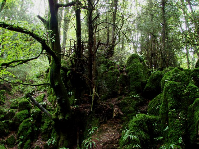 Magic of Puzzle Wood - sentry.